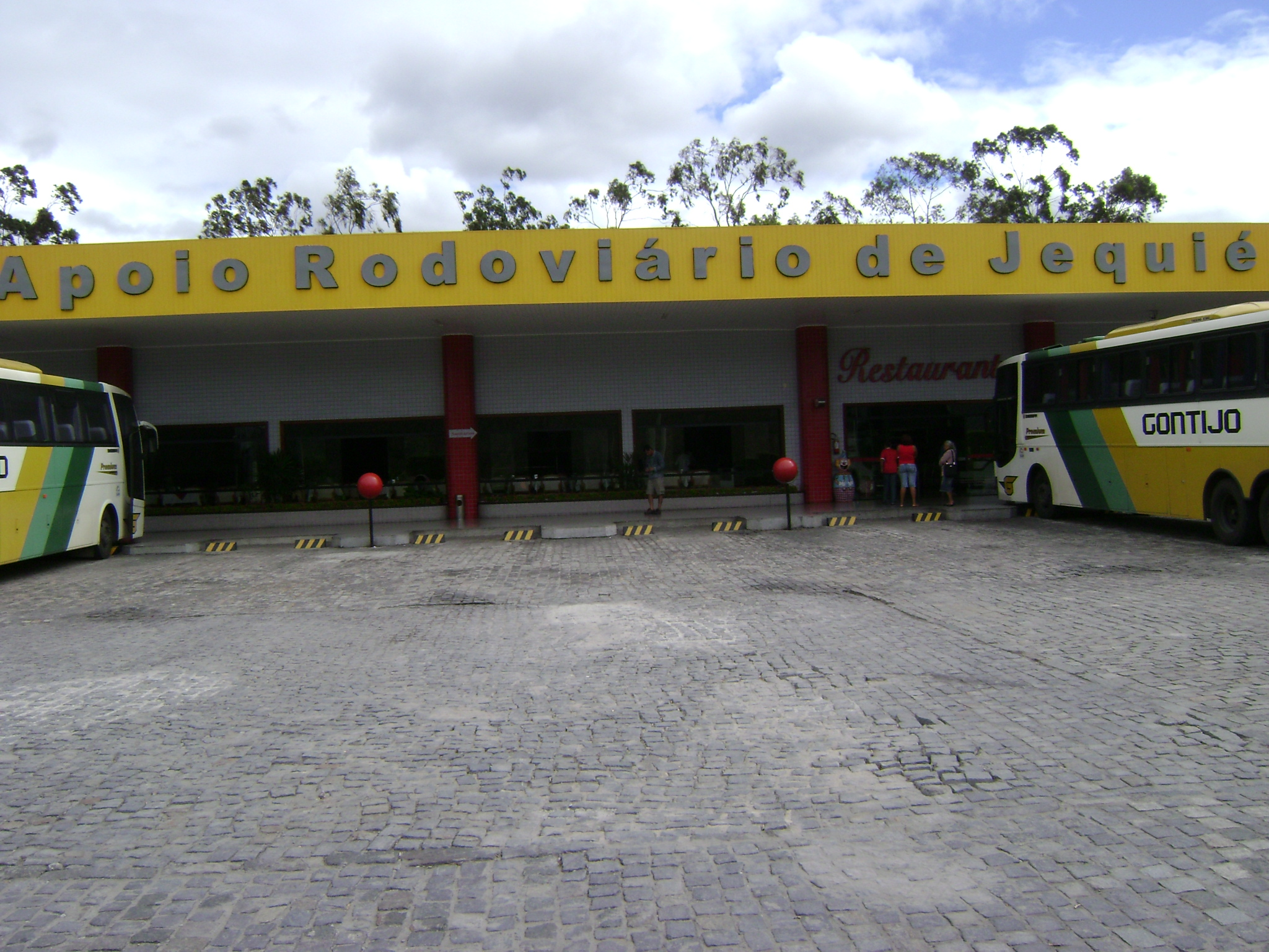 Terminal rodoviário de Jequié